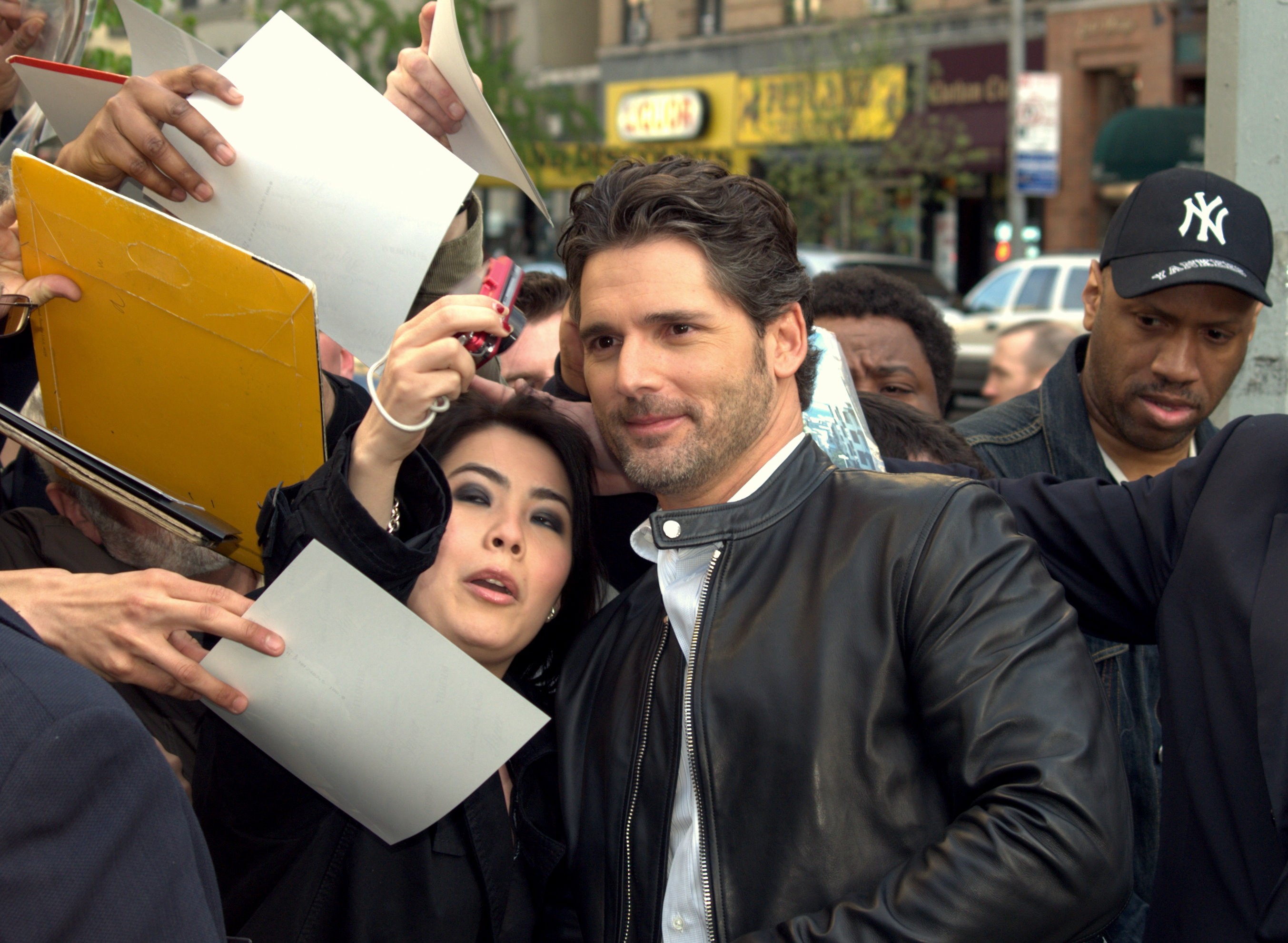 Eric Bana and fan at the 2009 Tribeca Film Festival for the premiere of Love the Beast. Photographers blog post about this event and this photo.